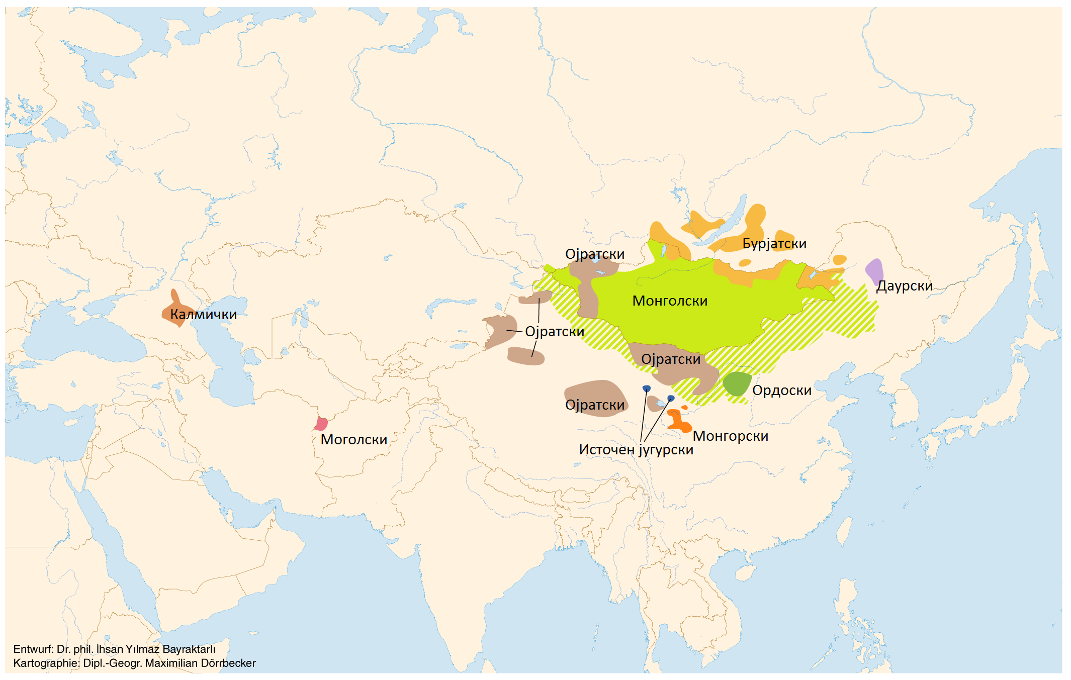 Linguistic maps of the Mongolic languages in Macedonian.